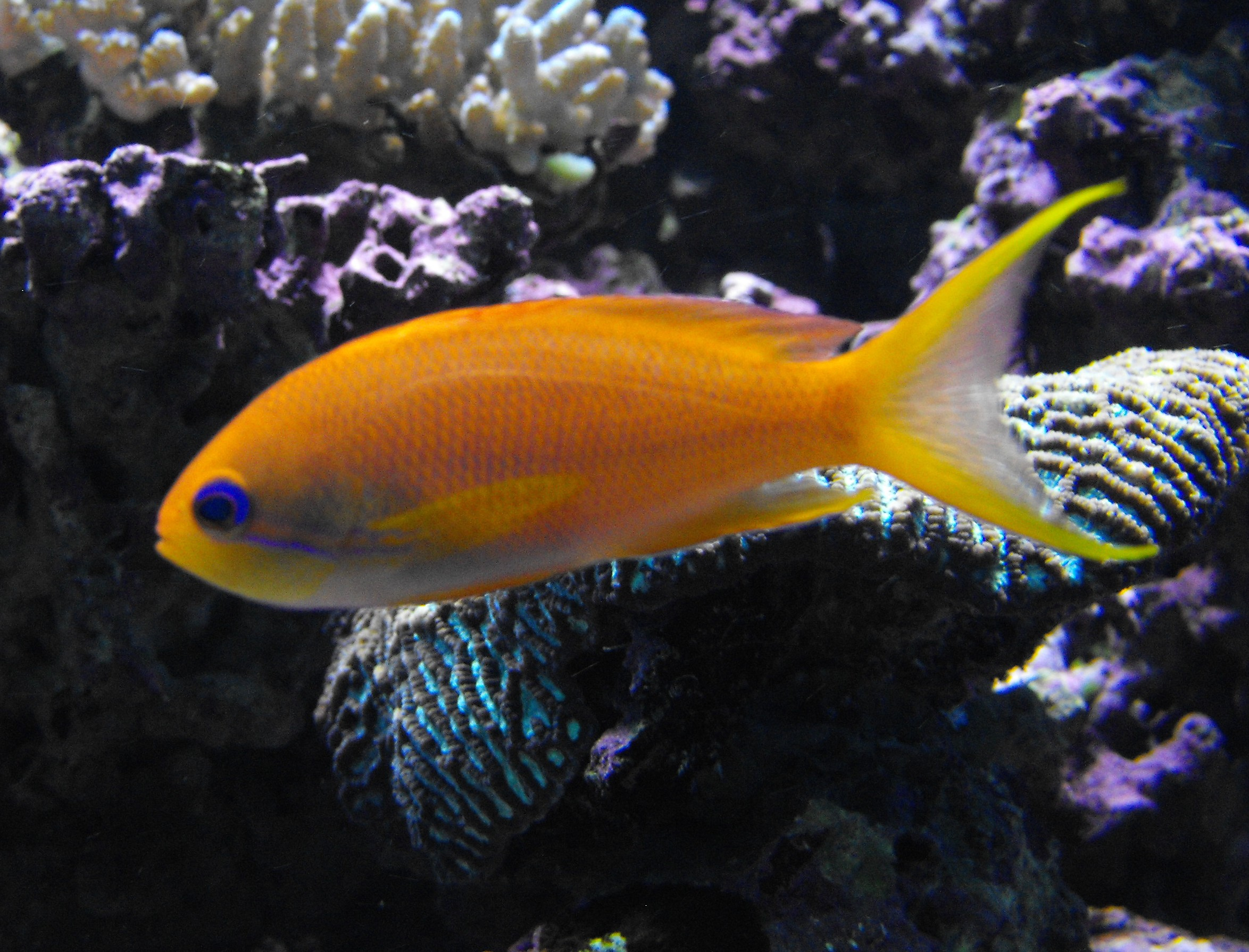 Pseudanthias squamipinnis at the Birch Aquarium in San Diego, California, USA.